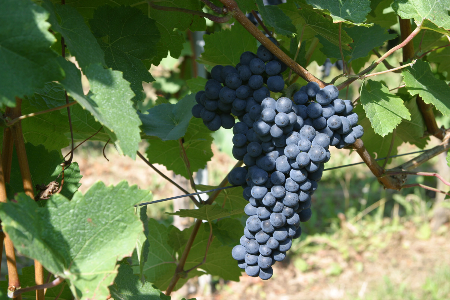 Leafs and grapes of the red grape variety Hegel.